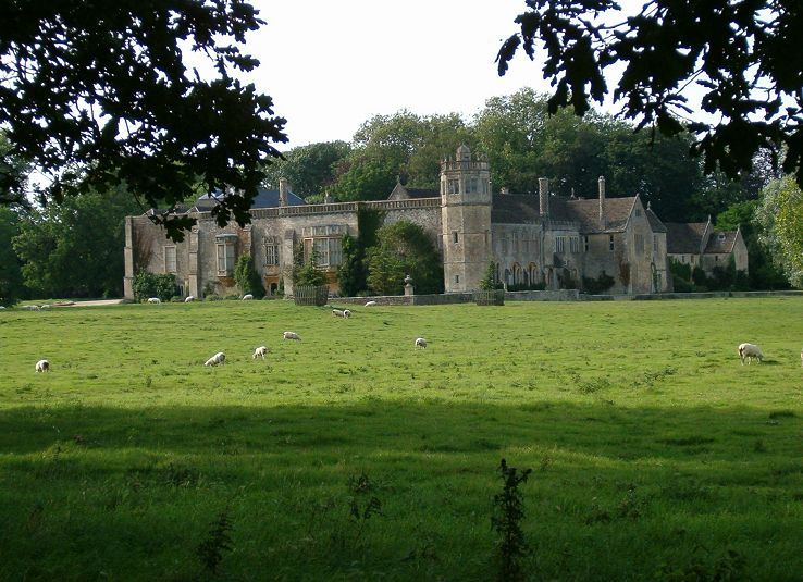 Taken by Frerix Year: July 2004 License: released under GNU-FDL Pubilc